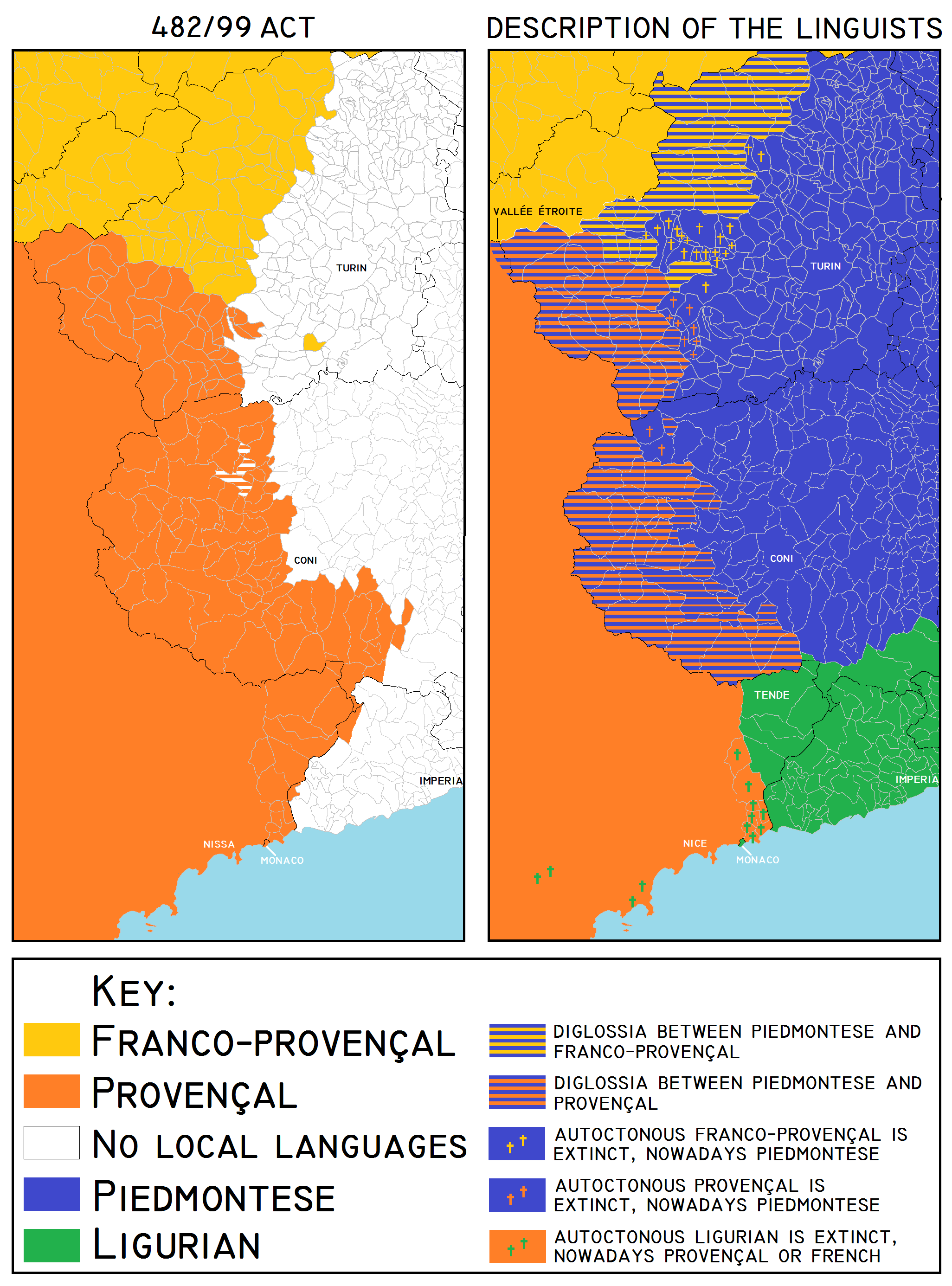 Description of the Occitan Valleys according to the 182/99 Italian National Law and according to he linguists.